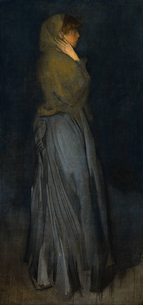 Franklin served as the model for this figure.